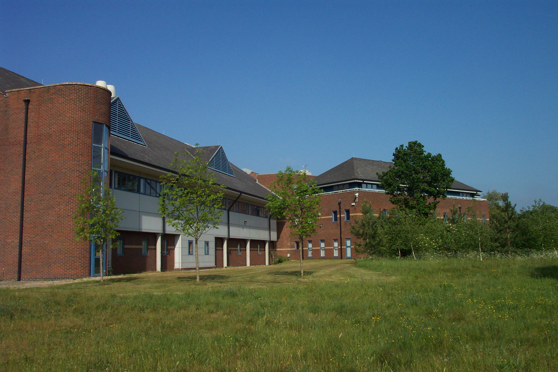 The Science & Technology Centre on the Whiteknights Park campus of the University of Reading, in the town of Reading in the English county of Berkshire. For more information see the Wikipedia articles University of Reading Science & Technology Centre and Whiteknights Park.